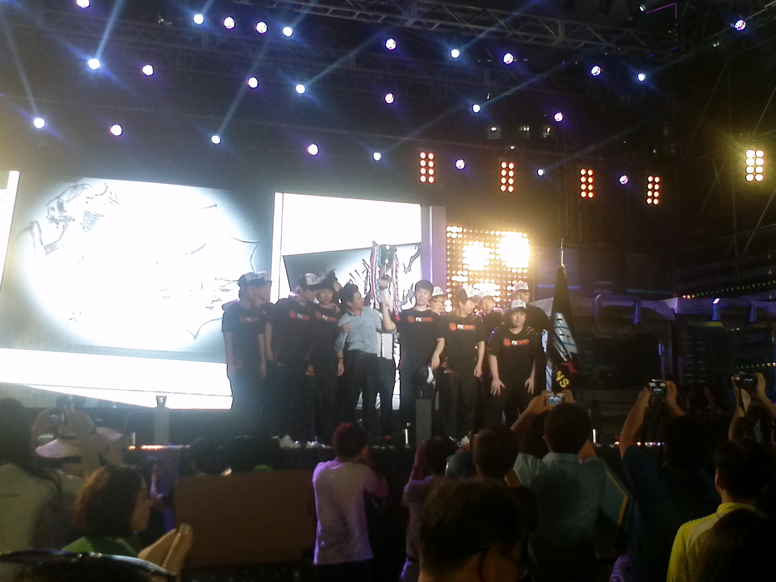 StarCraft team FXOpen